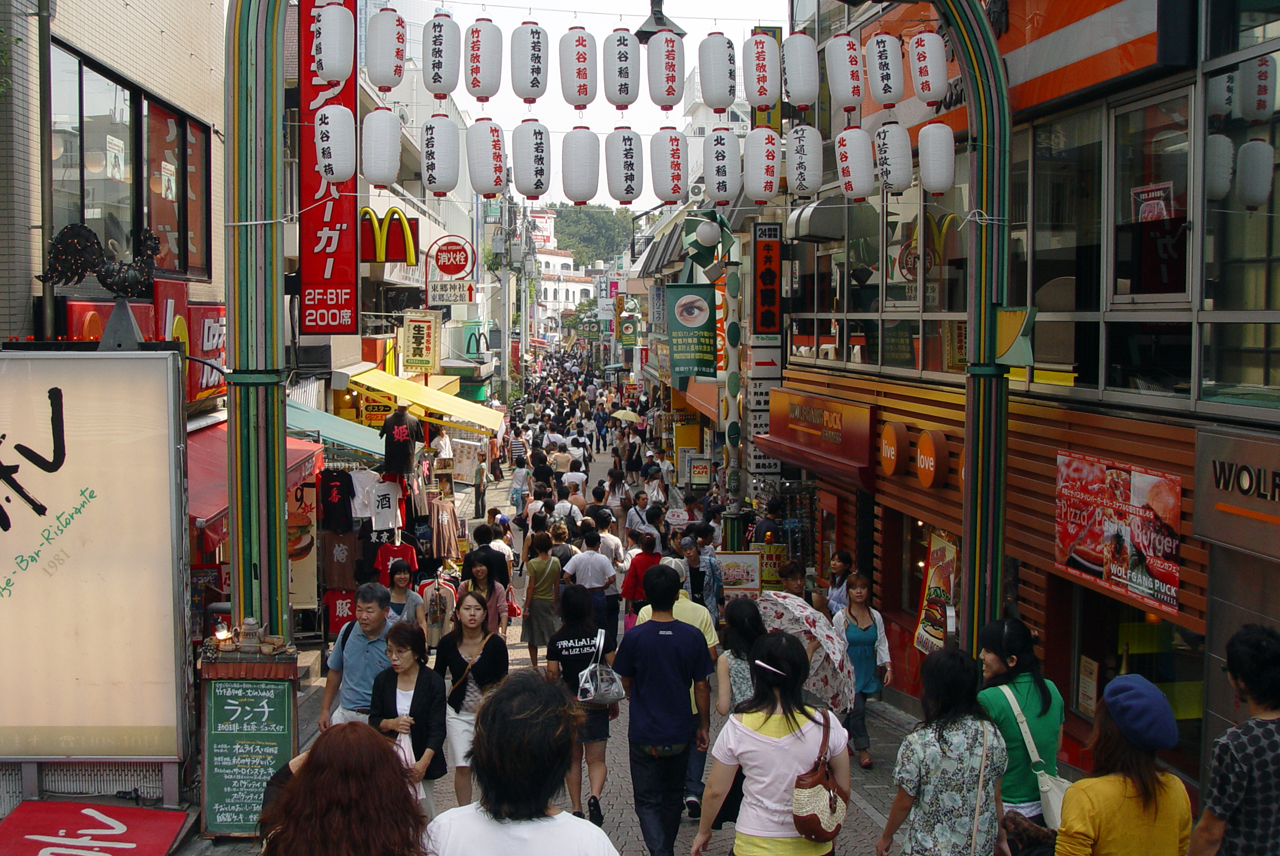 Ground zero for Harajuku pop fashion.